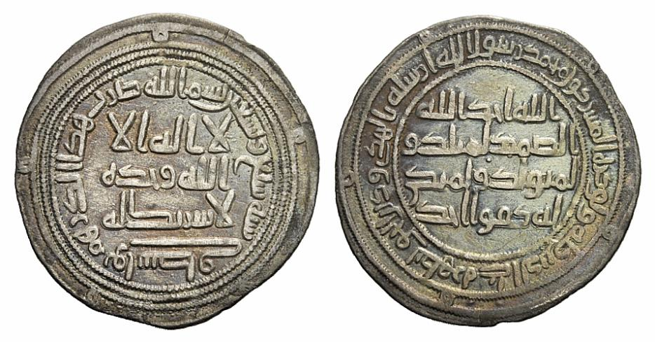 Umayya Sulayman Dirham